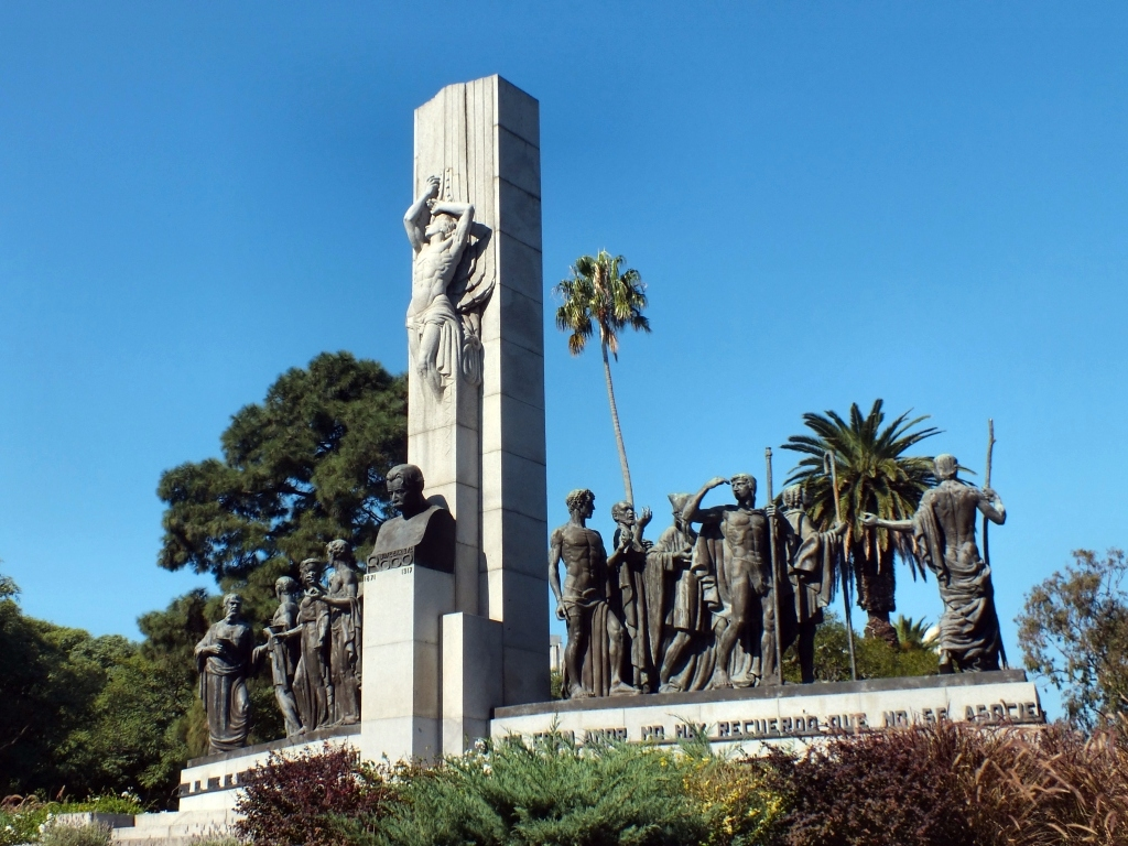 Monument to José Enrique Rodó, in Parque Rodó, Montevideo, Uruguay.